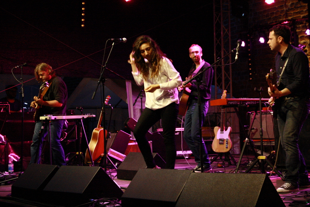 Intergalactic Lovers performing in 2014